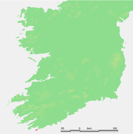 Ireland - Clear Island.PNG